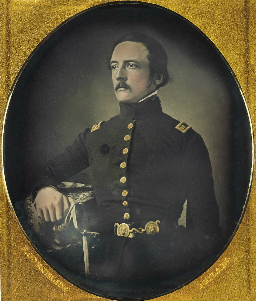 Captain Charles John Biddle, quarter-plate daguerreotype with hand-coloring credit stamped (on the brass mat)